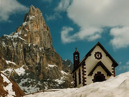 The mount Cimone della Pala seen from Rolle pass.